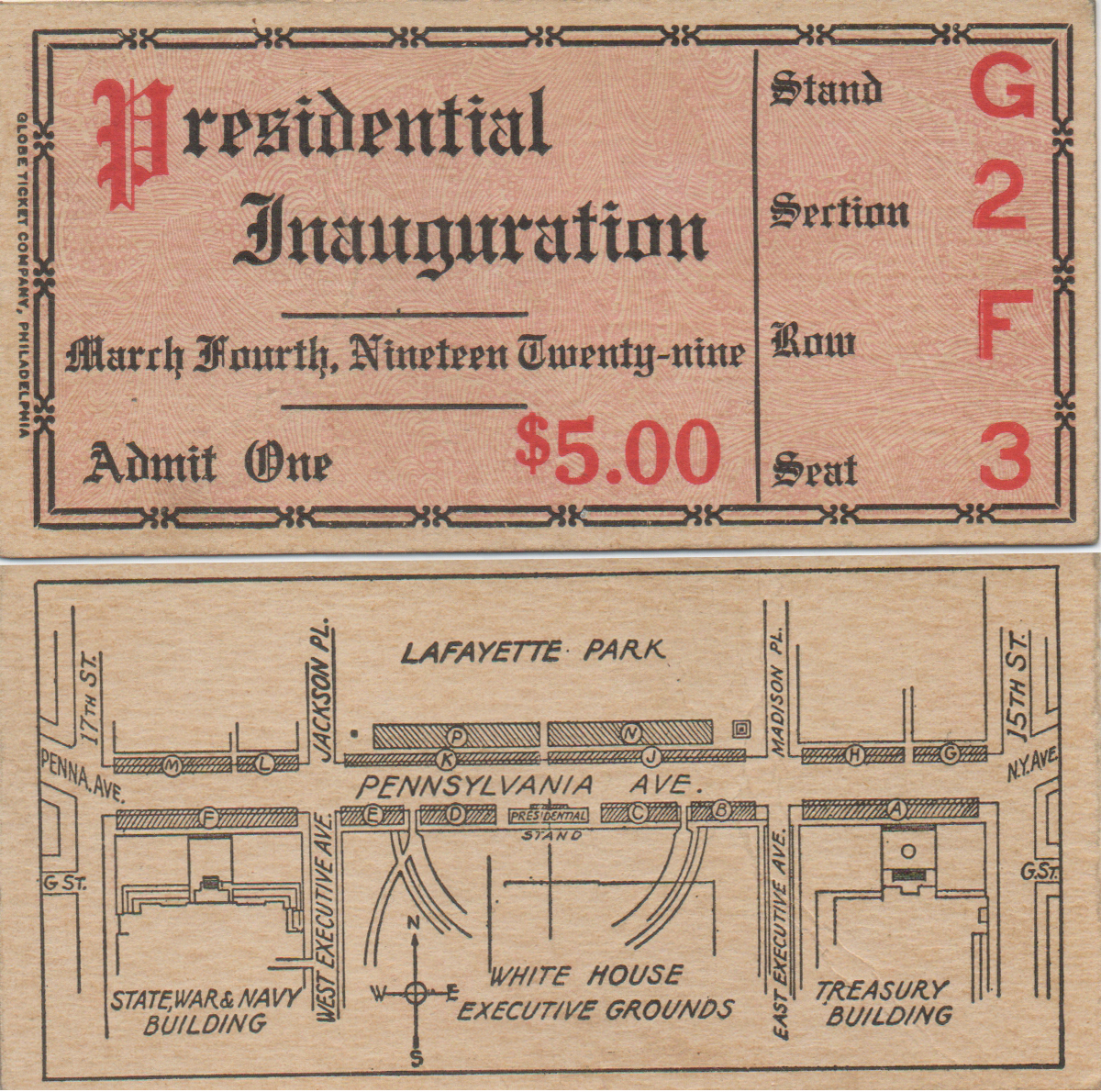 Ticket for the Inauguration (parade) of President Herbert Hoover for a seat in Grandstand "G" at the corner of 15th Street and Pennsylvania Ave, Washington, D.C. (The $5 price for this ticket would be equal to about $75 in 2019.)